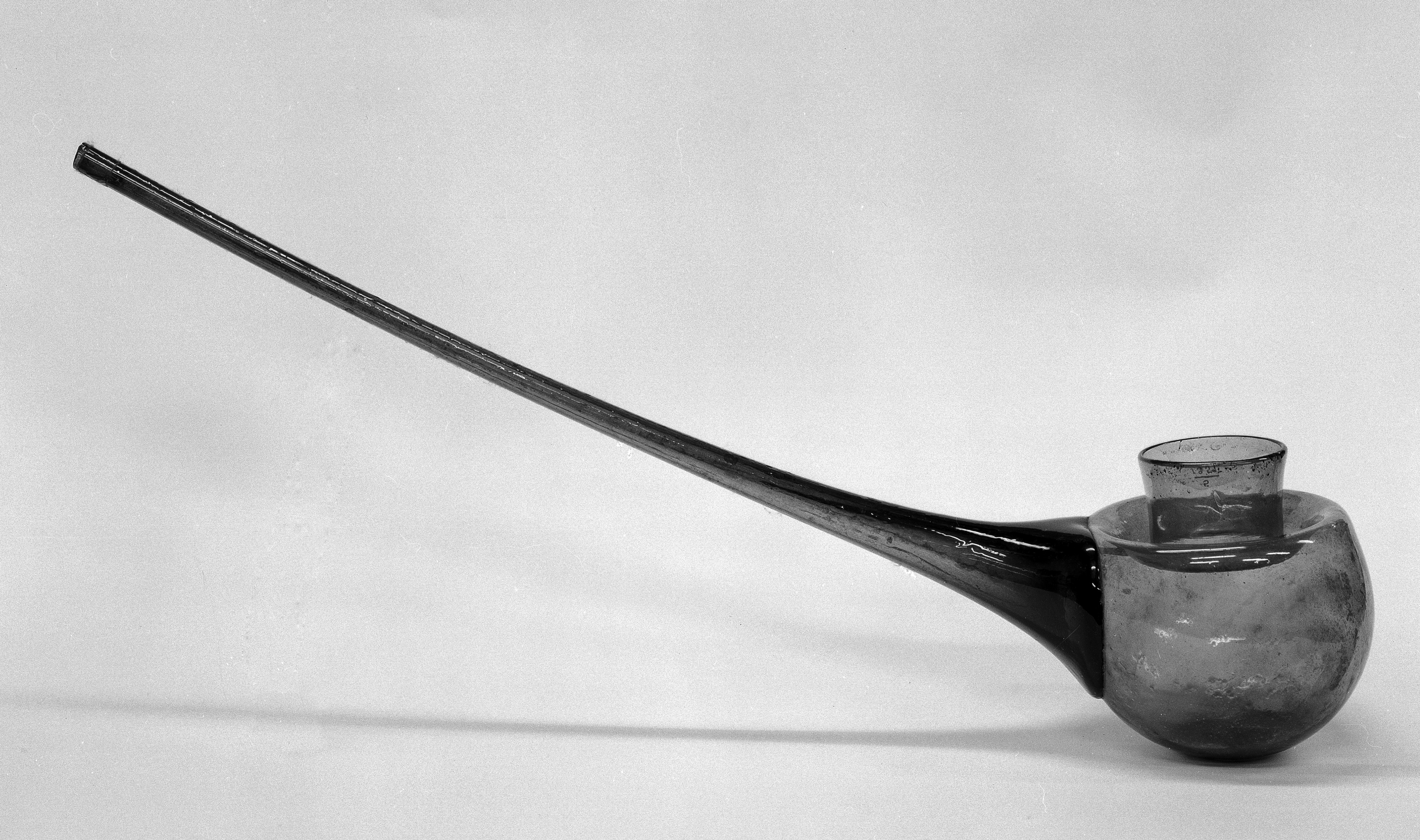 Glass still head. An early example - greensih glass. Wellcome Images Keywords: chemistry, apparatus